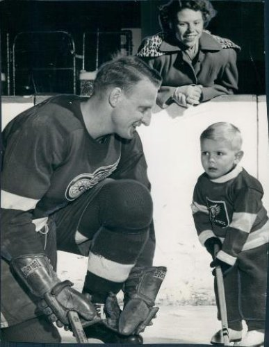 Leo Reise, Jr. in 1951 with his son and wife ( Detroit Free Press news photo)